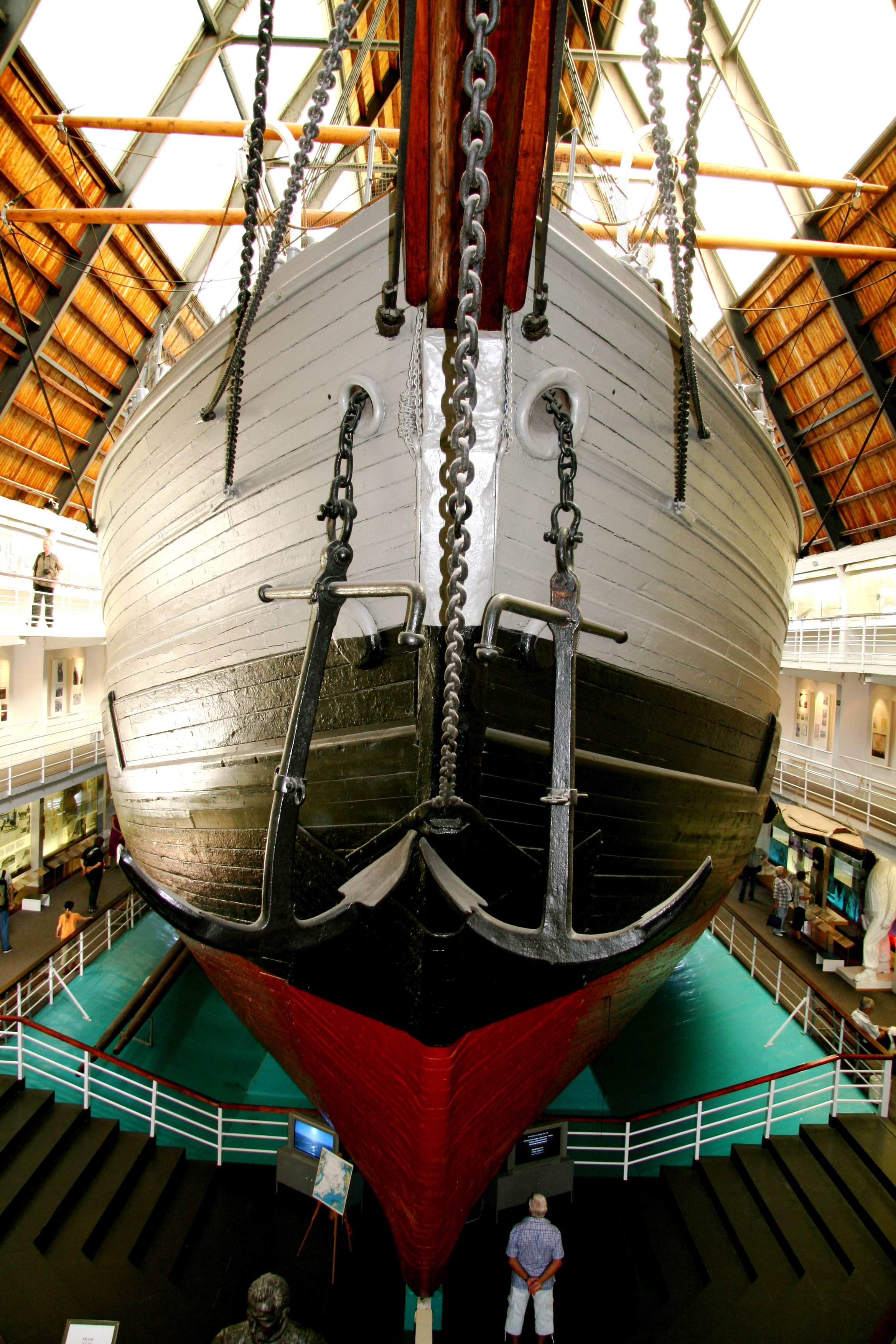 The Fram polar exploration ship, which participated in expeditions to the North Pole, and later Roald Amundsen's historic first expedition to the South Pole.